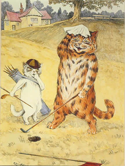 A cat by Louis Wain, representative of his anthropomorphic style.